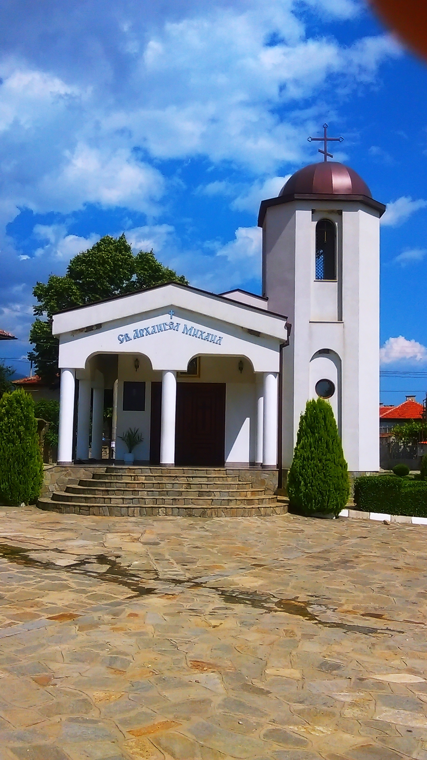 Saint Archangel Michael chapel in Anevo, Plovdiv province